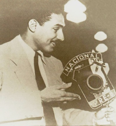 Image of Dorival caymmi circa. 1938 in front of mic for Radio Nacional